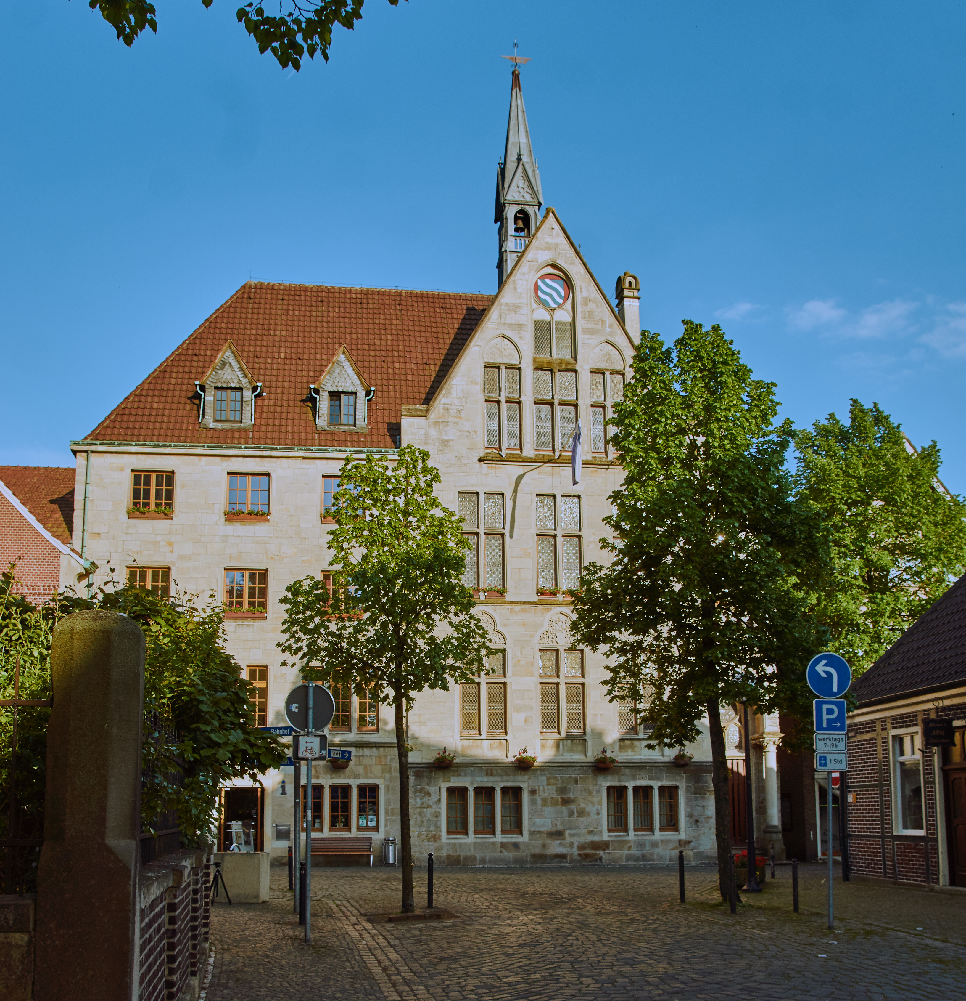 Rathaus Billerbeck This is a photograph of an architectural monument.